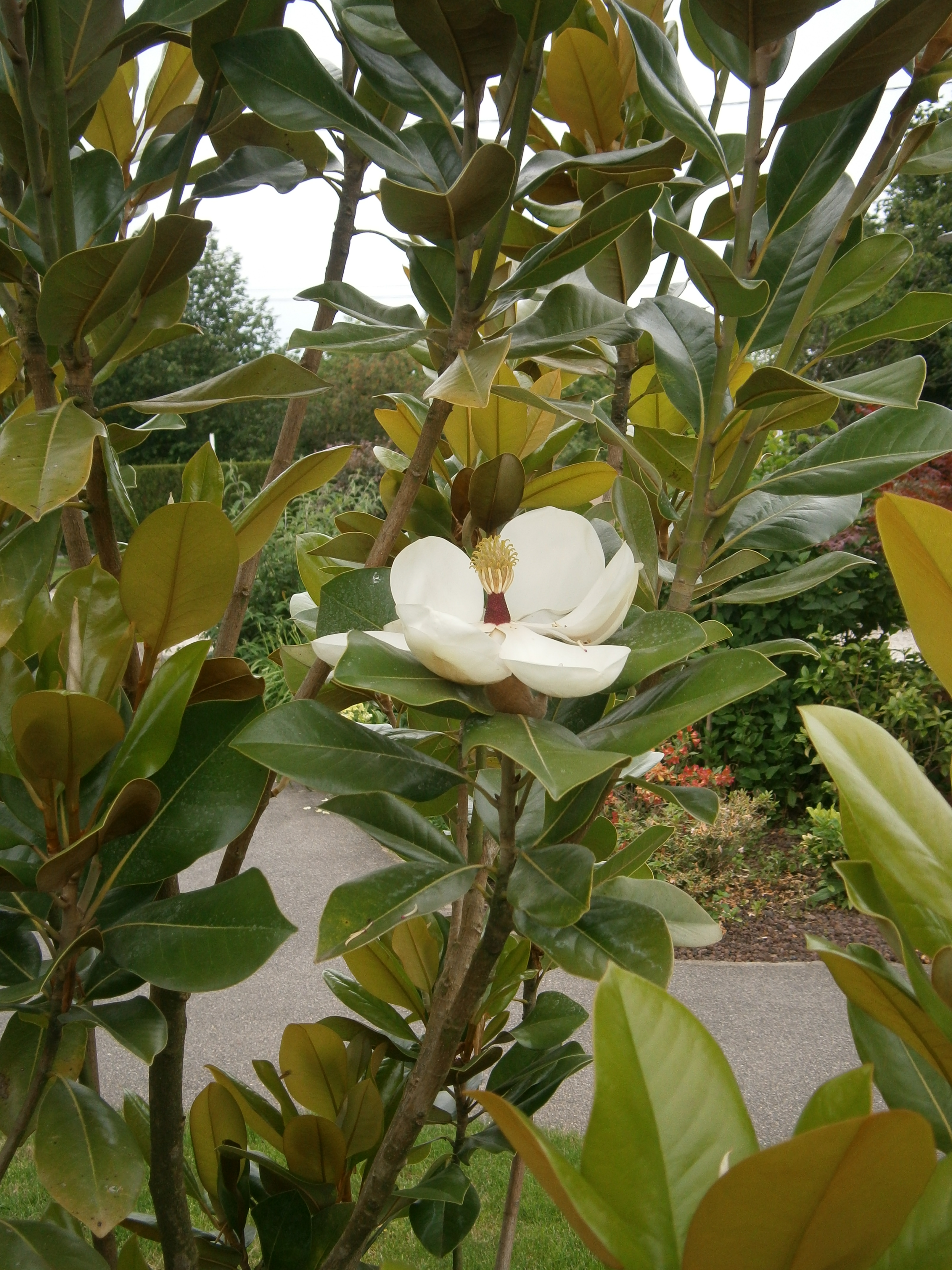 Magnolia grandiflora in flower